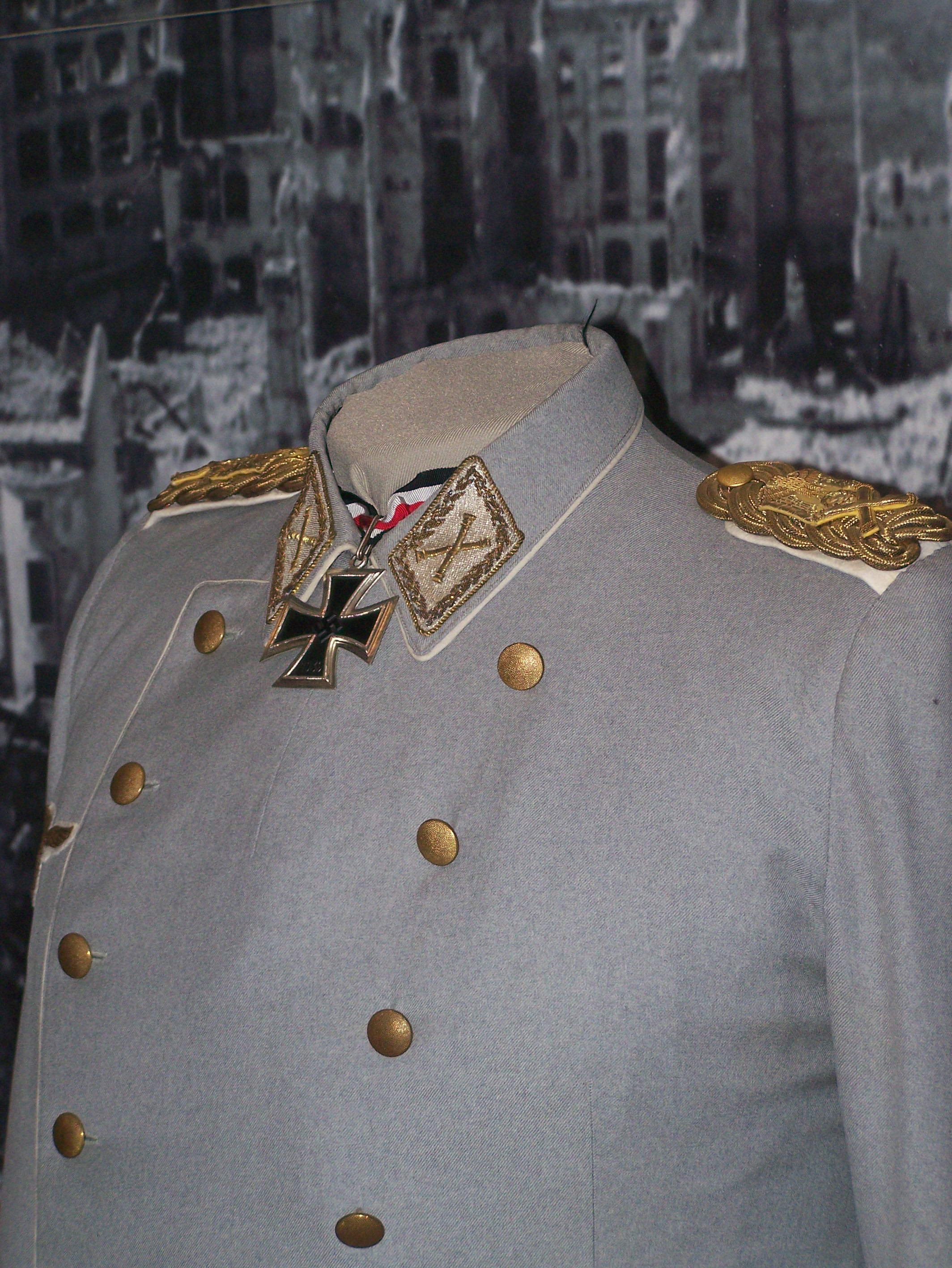 mundur Goringa muzeum Luftwaffe baza RAF Gatow Berlin